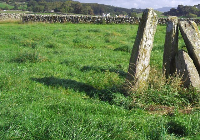 Grass in the field next to the standing stones at Newton Farm